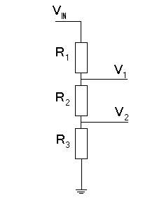 A 3 resistor voltage divider.